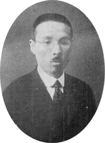 Mr. Tarō Takemasa.